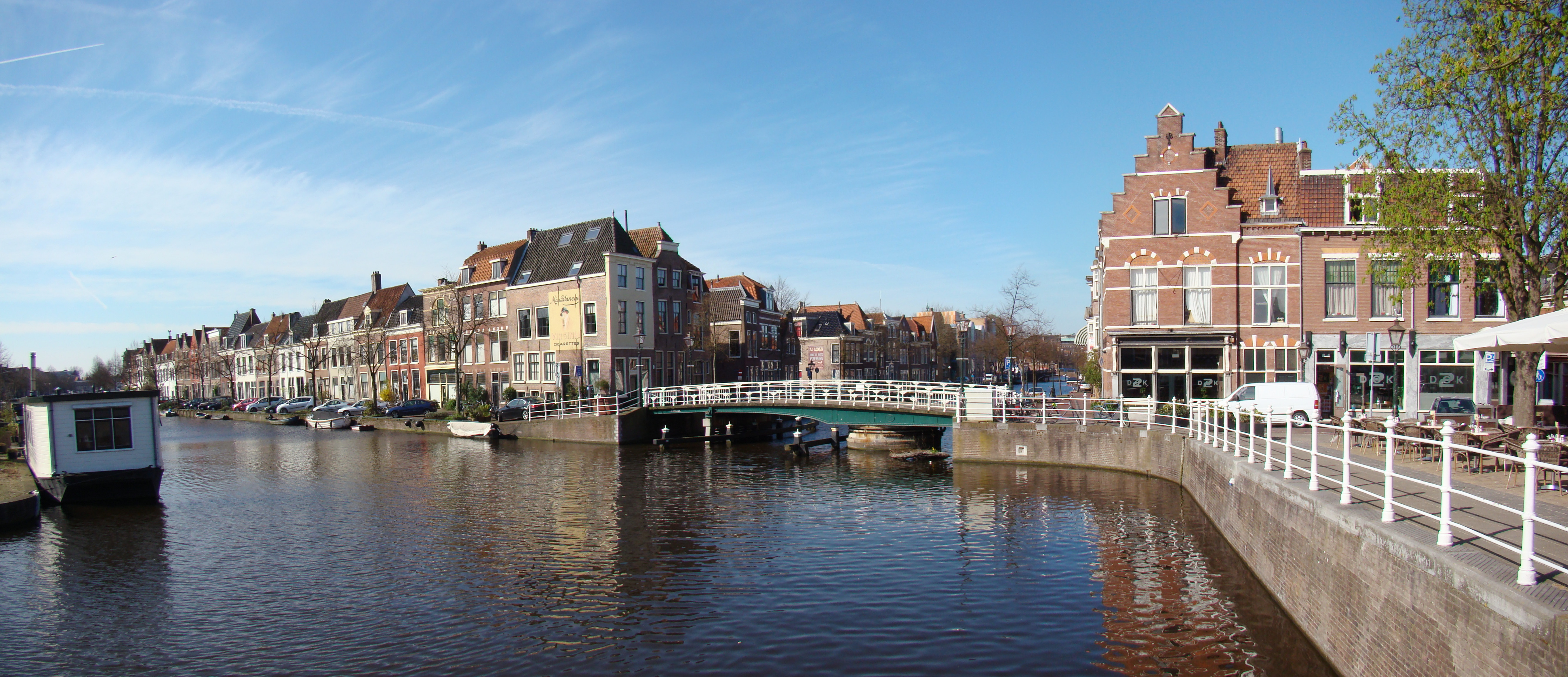 Panoramics of Leiden